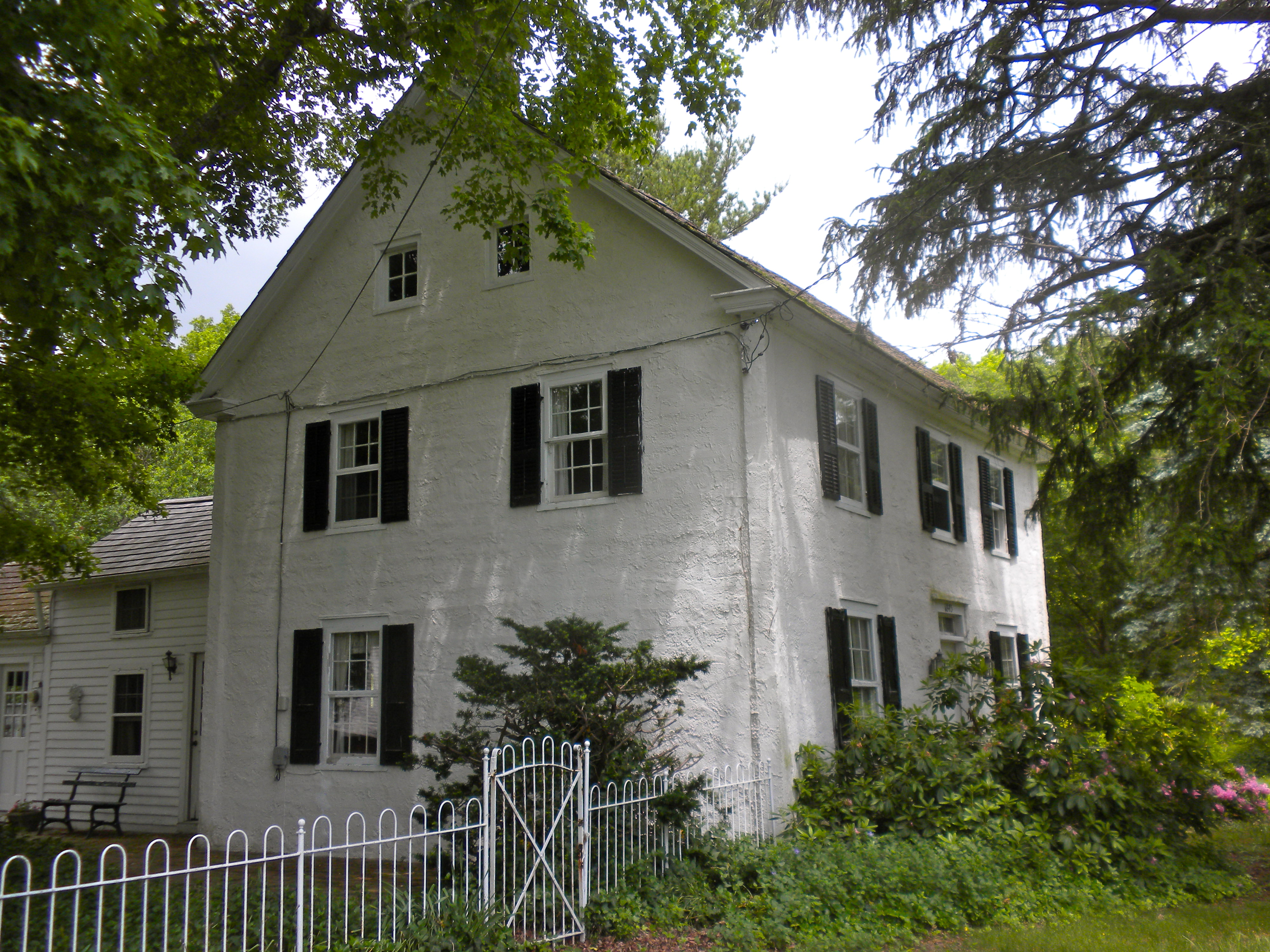 Thomas Leaming House on NRHP since August 1, 1997. At 1845 US 9 N, Middle Township, Cape May County, New Jersey, USA.